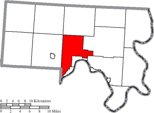 Map of the municipal and township boundaries of Meigs County, Ohio, United States, as of the 2000 census, with the location of Salisbury Township highlighted. Township borders are shown only in unincorporated areas in order to differentiate incorporated and unincorporated areas more clearly.